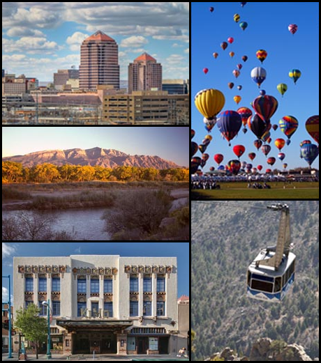 This is a montage used for the City of Albuquerque's info box. Created with a black border and a much thinner version.